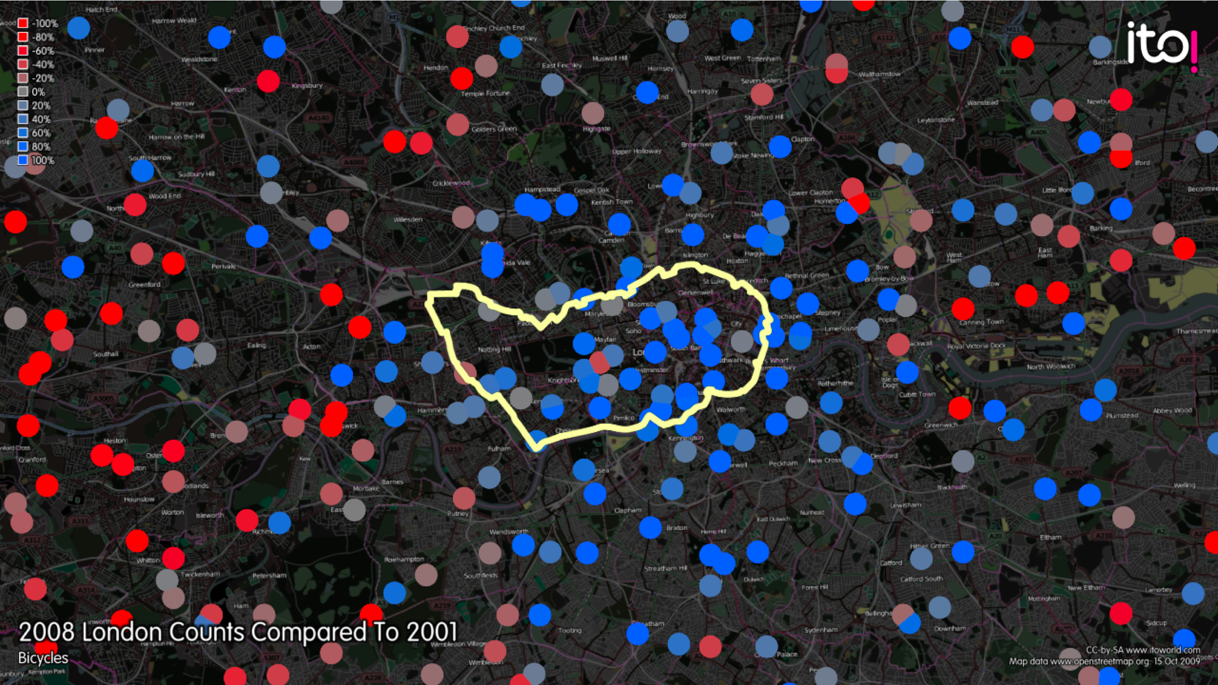 Image showing changes in the counts of bicycles in London at October 2008 compared to October 2001 based on official data. The London congestion charge was introduced in 2003. Red dots show a decline in bicycles, blue dots an increase. The boundary of the congestion charge is shown in white. Produced by ITO World Ltd using traffic count data published by the Department for Transport on .uk and OpenStreetMap base mapping